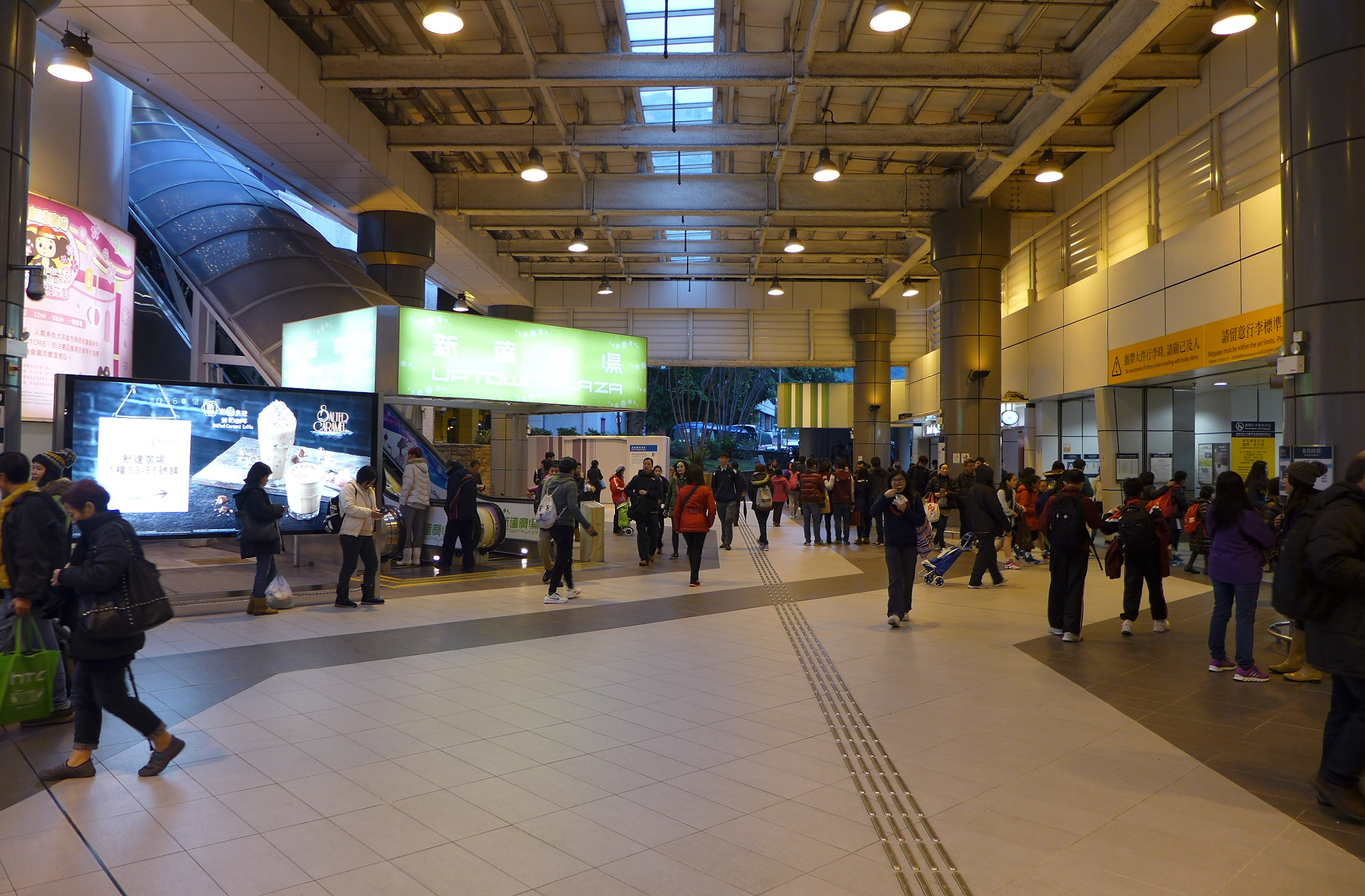 MTR Tai Po Market station Entrance/Exit A plaza